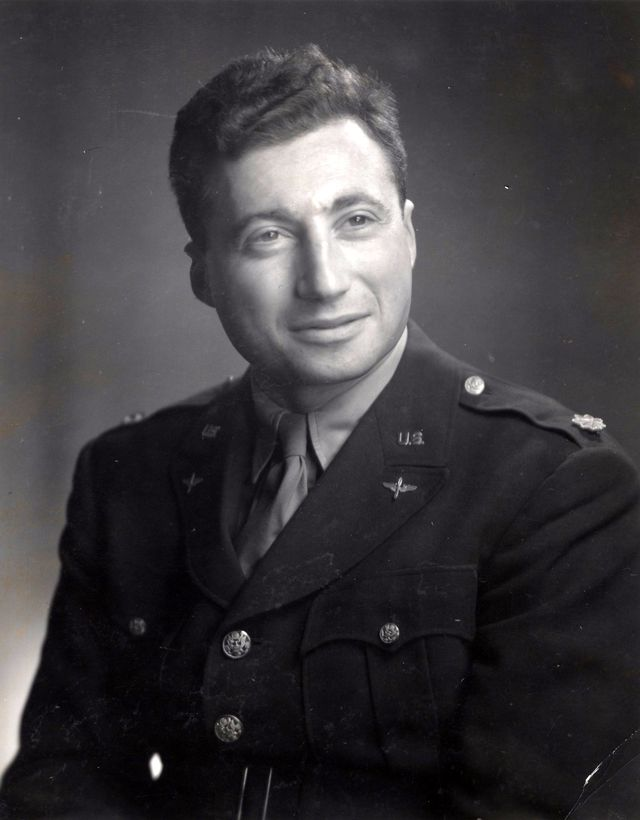 Lt. Col Robert 'Rosie' Rosenthal of 100th Bomb Group